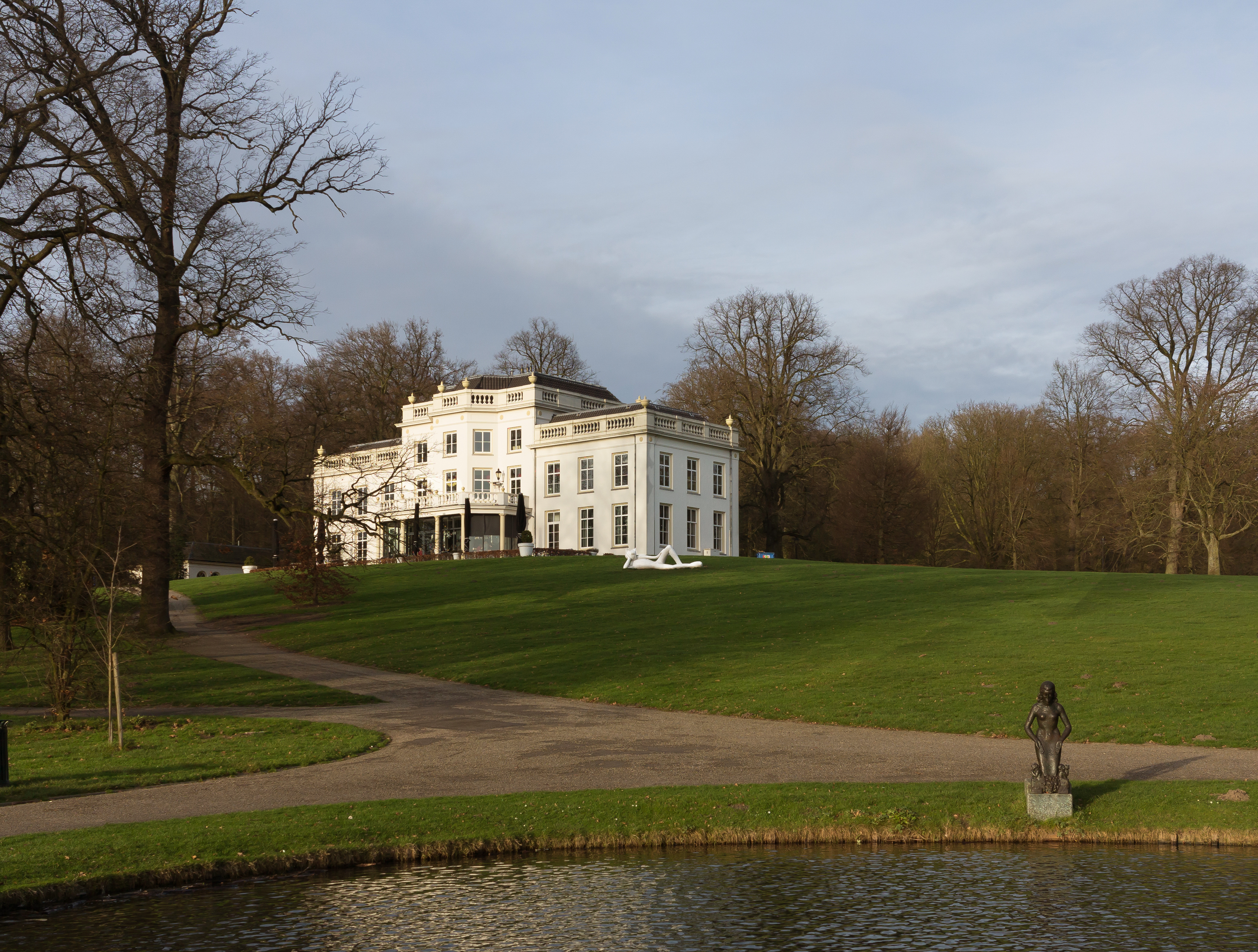 Arnhem., country house: huize Sonsbeek with two sculptures in the front